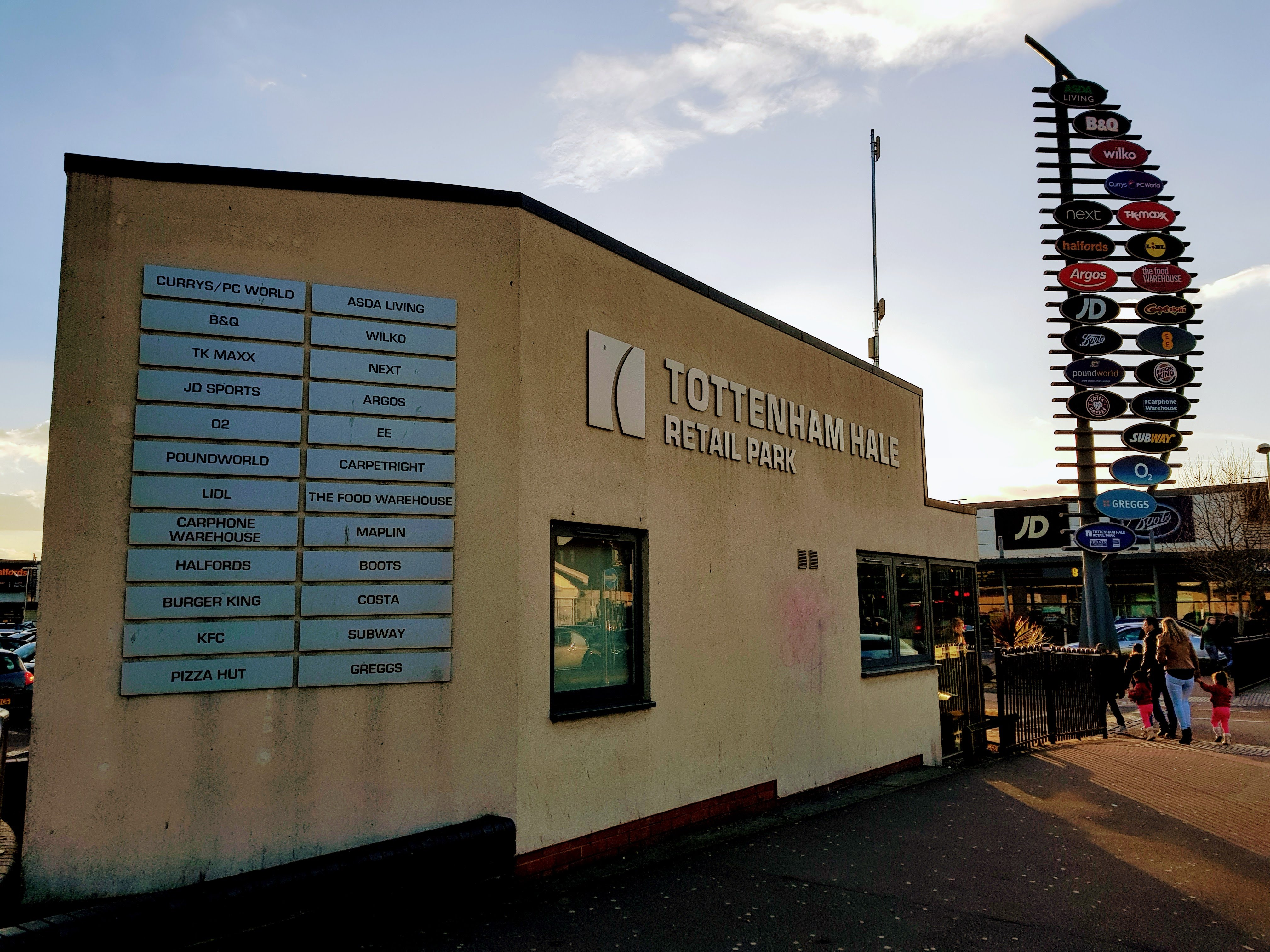 Tottenham Hale Retail Park, a large retail development on the site of the former Gestetner duplicator factory in Tottenham Hale, London